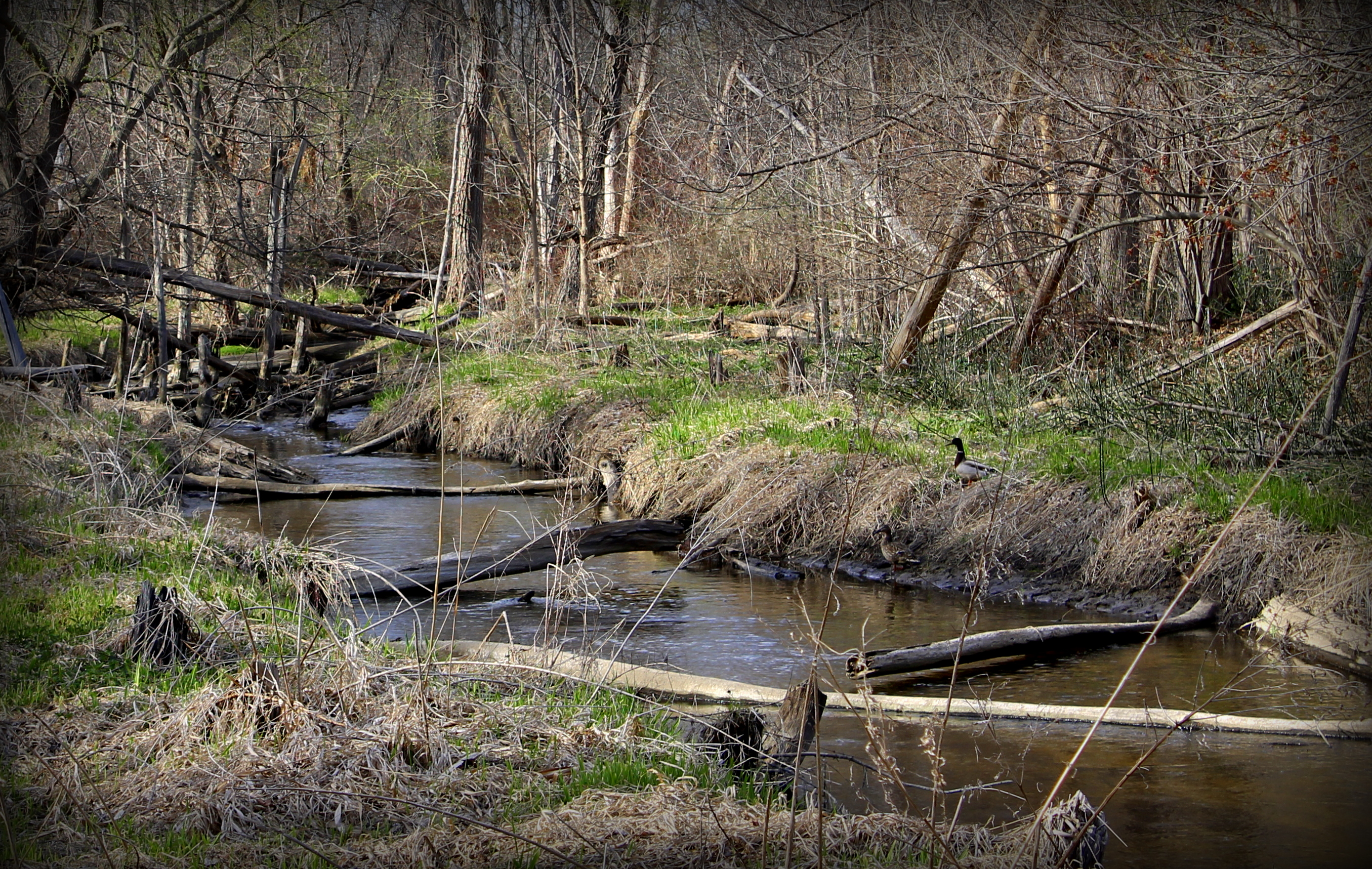 Ingersol Creek, Walled Creek Watershed, taken at Novi, Oakland County MI demonstrating wildlife habitat.